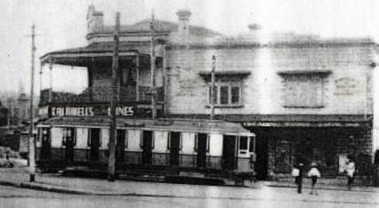 Tram at the Erskineville, New South Wales Terminus